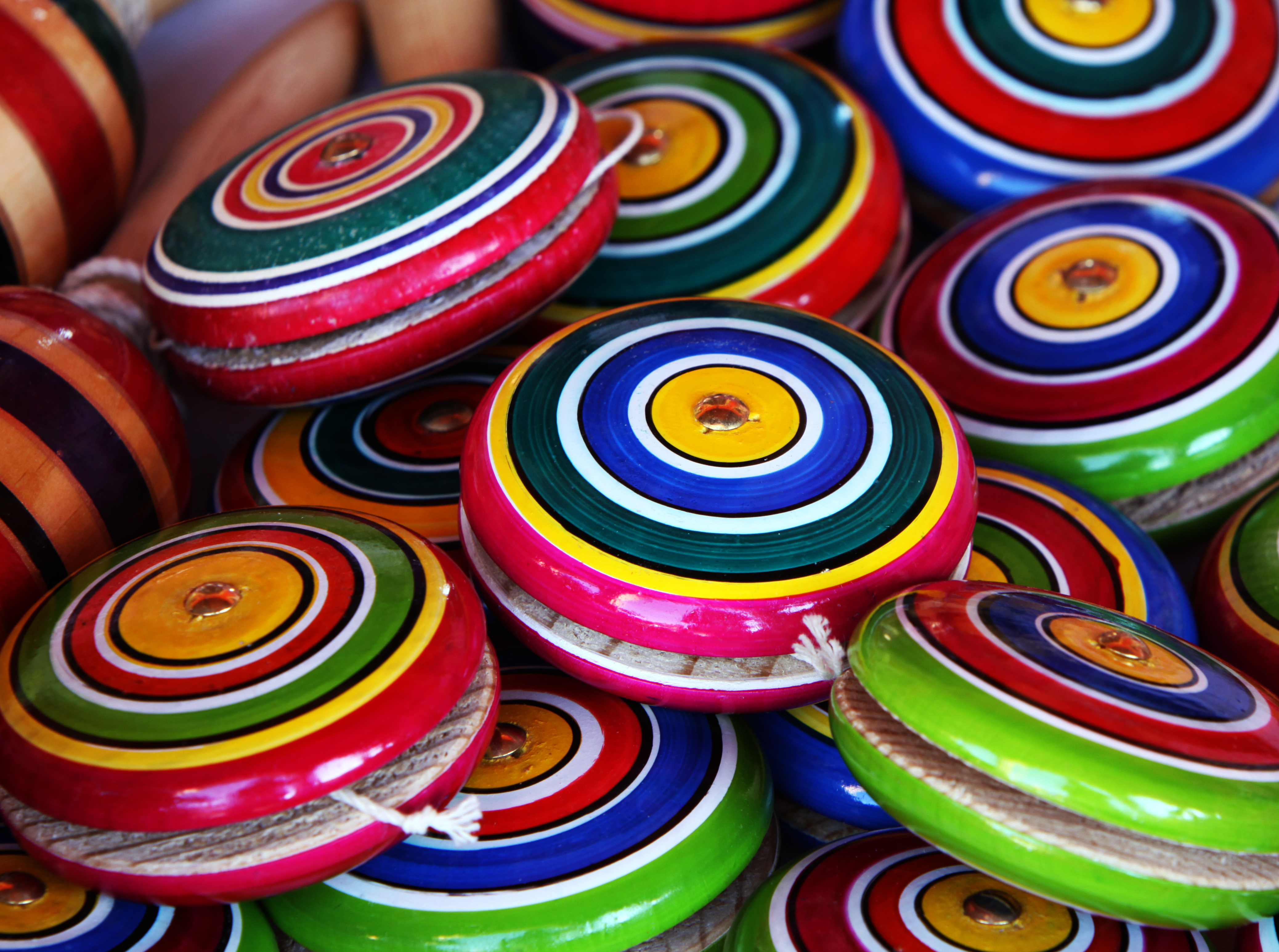 Mexican yoyo